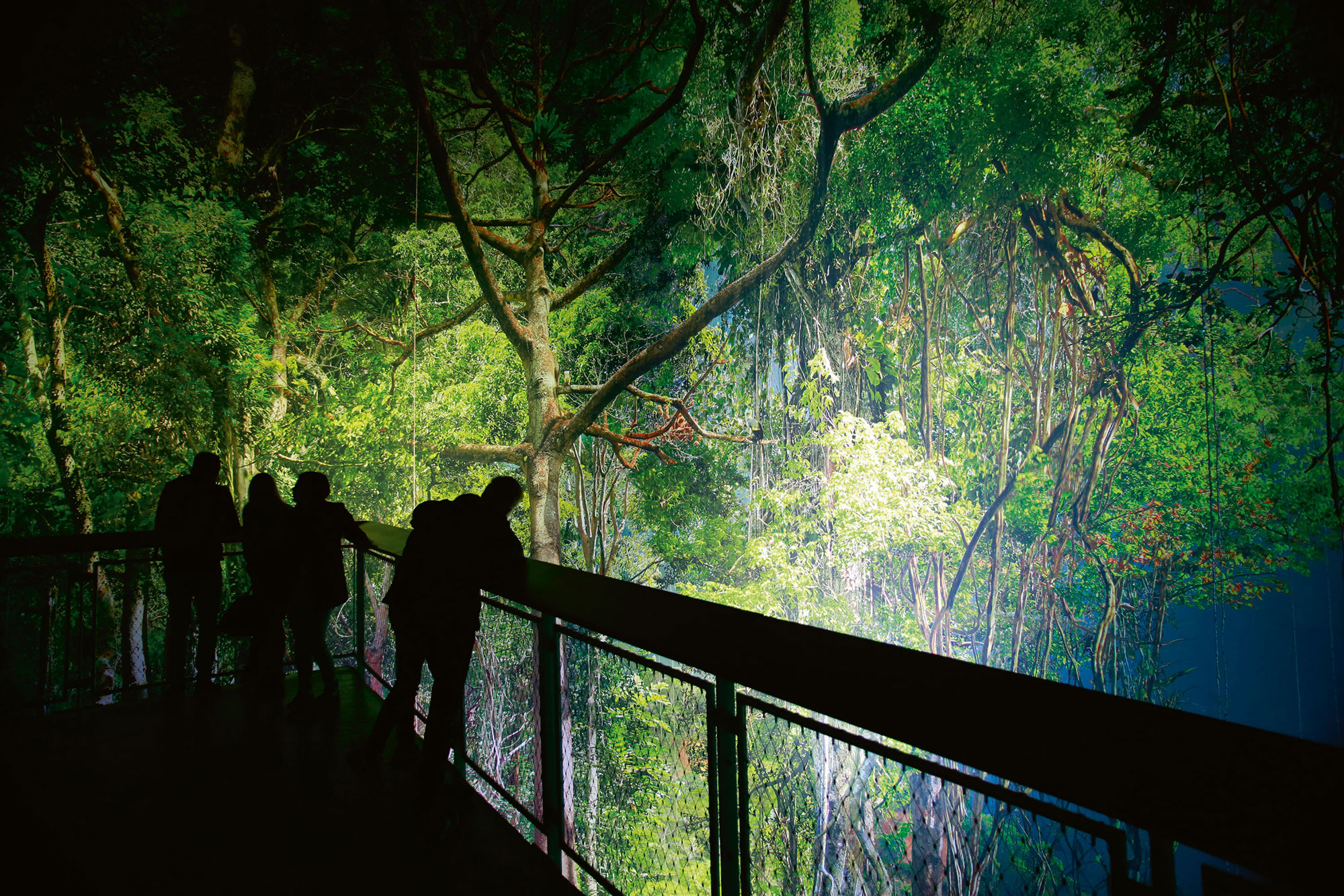 The depths of the rainforest in AMAZONIA seen from the platform (c) asisi